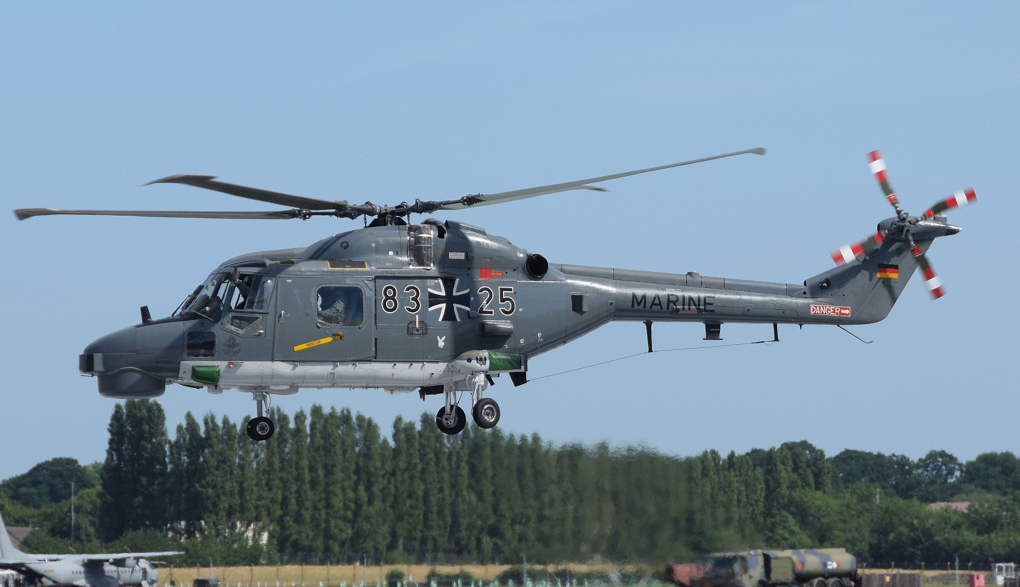 Westland WG-13 Super Lynx Mk88a (code 83+25) of the German Navy at the 2017 Royal International Air Tattoo, RAF Fairford, England